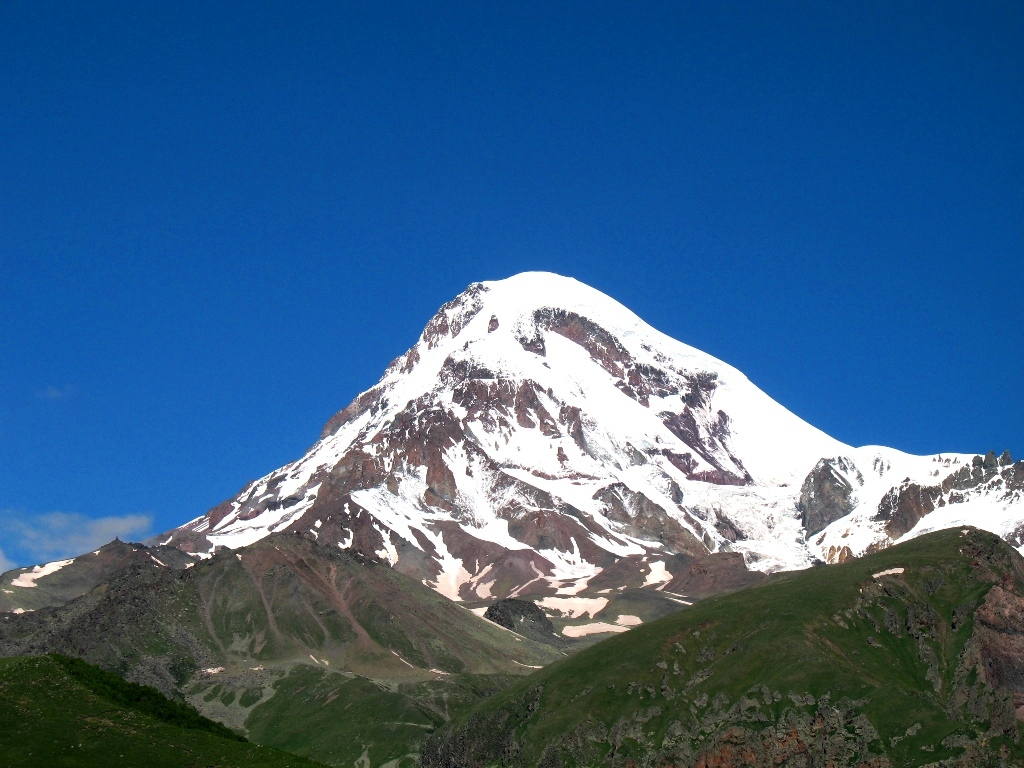 Kazbegi. Mount. Mkinvarcveri (Kazbek) 5047 m., Stefancminda district (ყაზბეგის რაიონი)